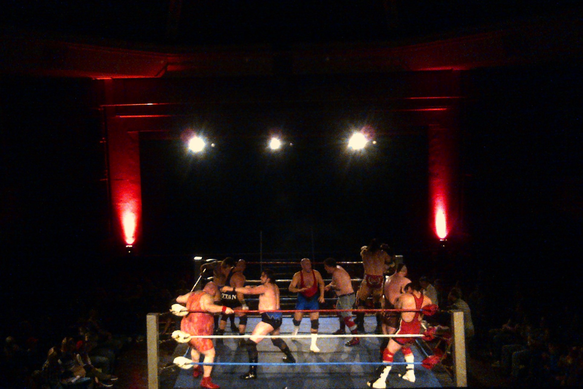 Welsh Wrestling at Porthcawl's Grand Pavilion in October 2014